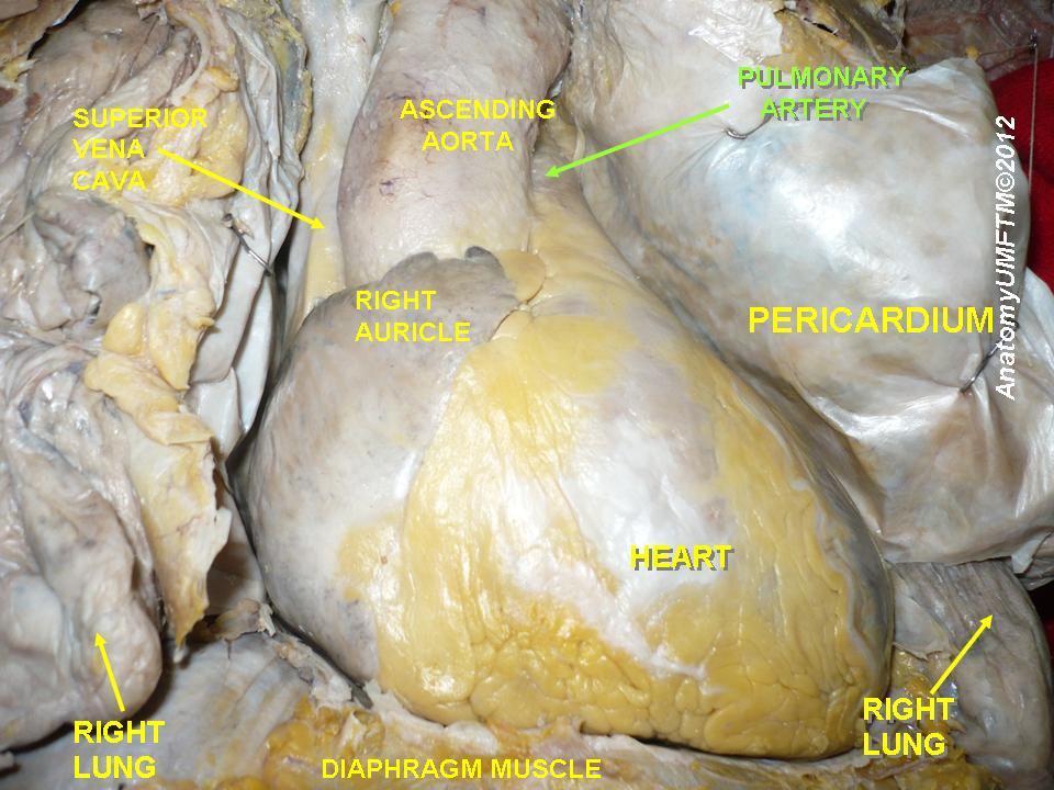 Anatomical dissections